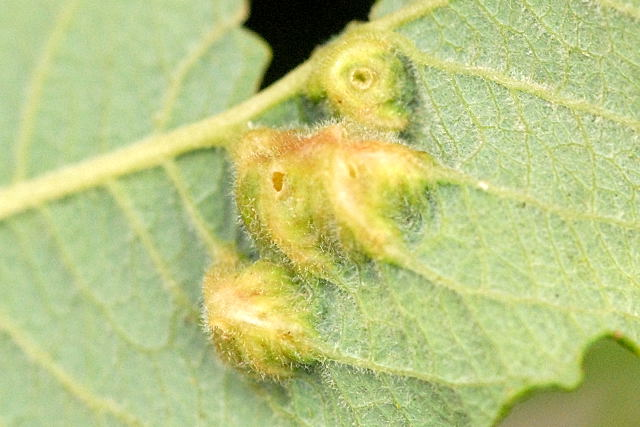 Pontania bridgmanii from Commanster, Belgian High Ardennes .